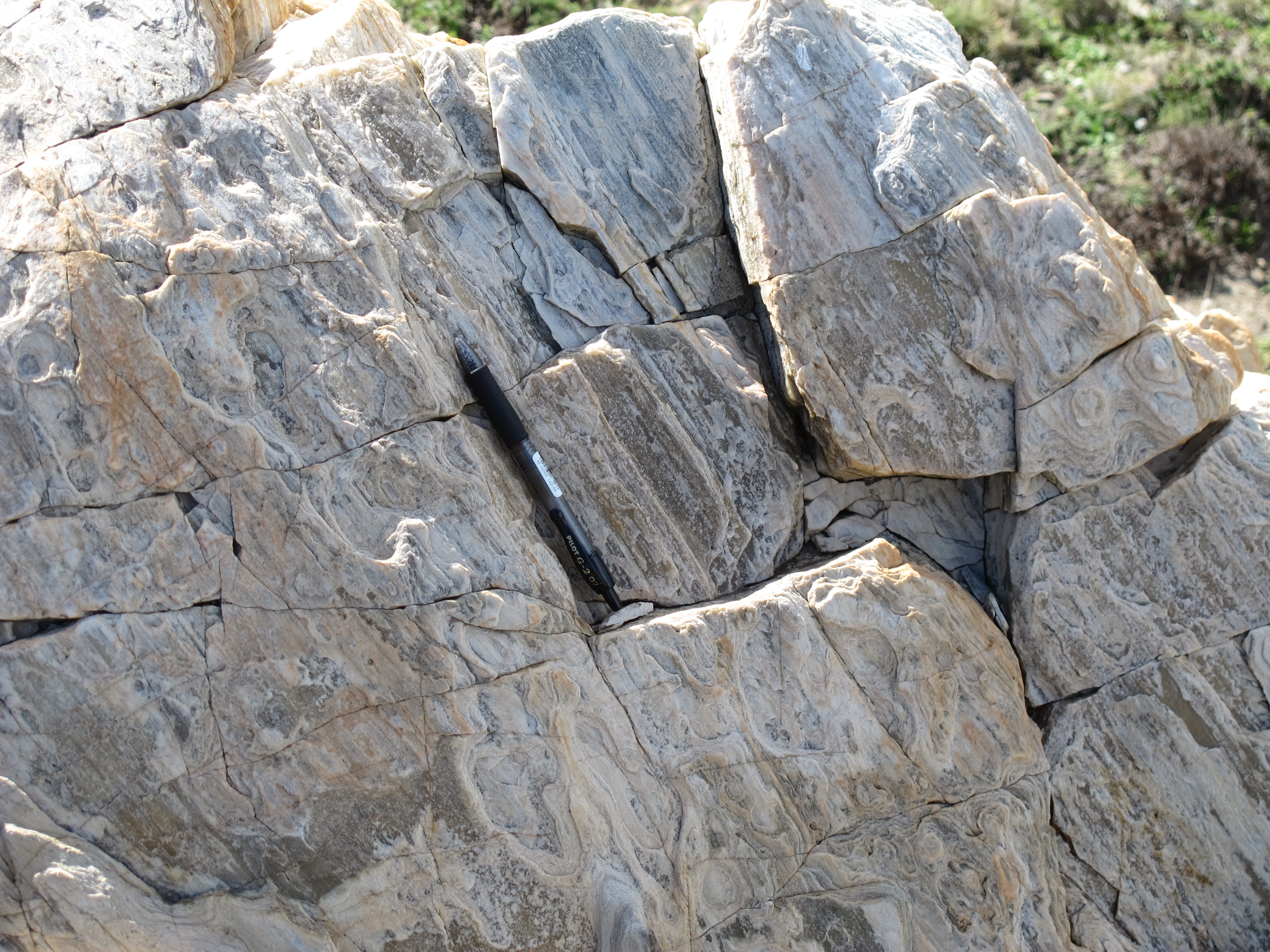 Strongly developed mineral elongation lineation in a mylonitised quartz vein, Cala Portixol, Cap de Creus area, Catalunya. Pen for scale - 14 cm long